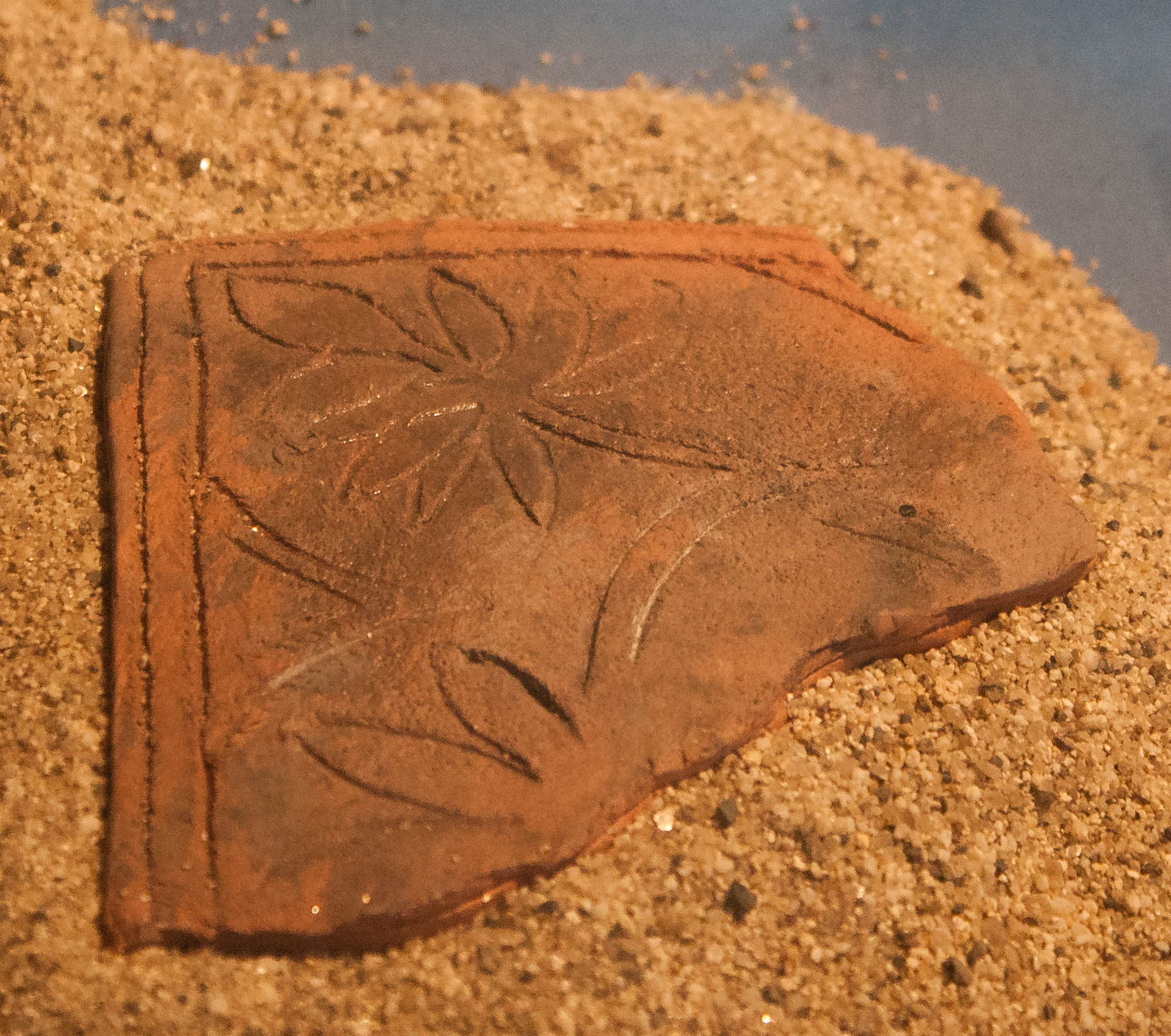 Fragment of a medieval line-impressed floor tile with L14 pattern recovered during the archaeological excavations and now exhibited in the south nave. (See Elizabeth S. Eames and Thomas Fanning: Irish medieval tiles (catalogue of Irish medieval tile patterns) and Mary McMahon: St. Audoen's Church, Cornmarket, Dublin: Archaeology and Architecture, ISBN 0-7557-7315-2, p. 63.